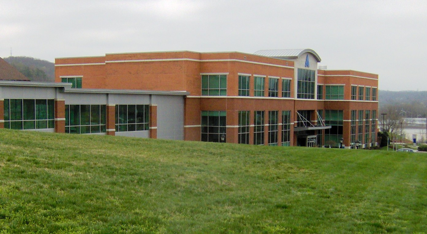 The Oak Ridge Institute for Science and Education (ORISE) building on the campus of Oak Ridge Associated Universities in Oak Ridge, Tennessee, in the southeastern United States.